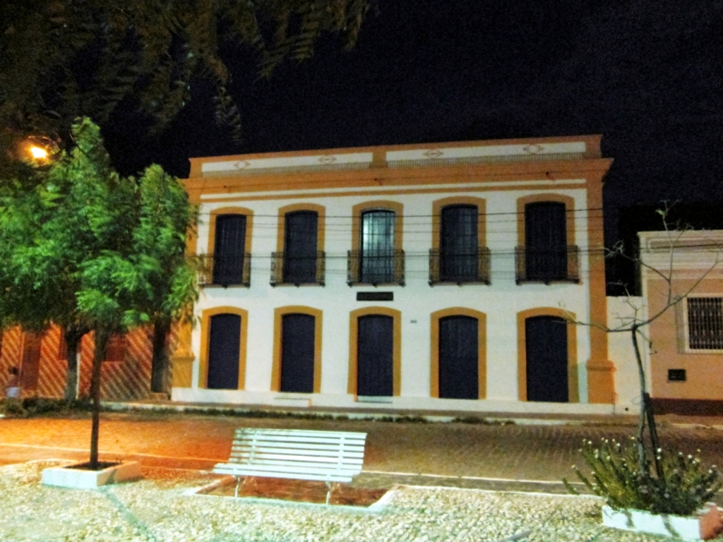 Casa da Cultura.